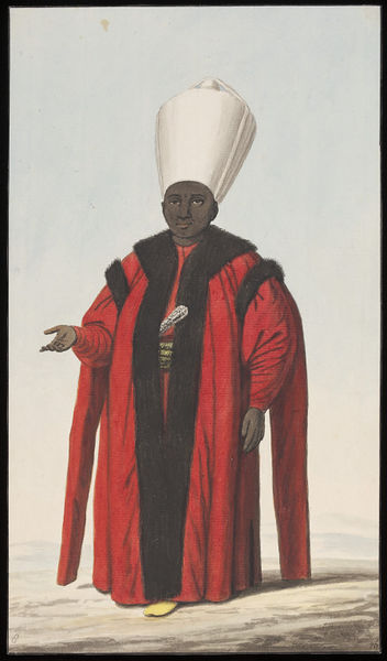 The Kizlar Agha, the chief black eunuch of the Ottoman harem